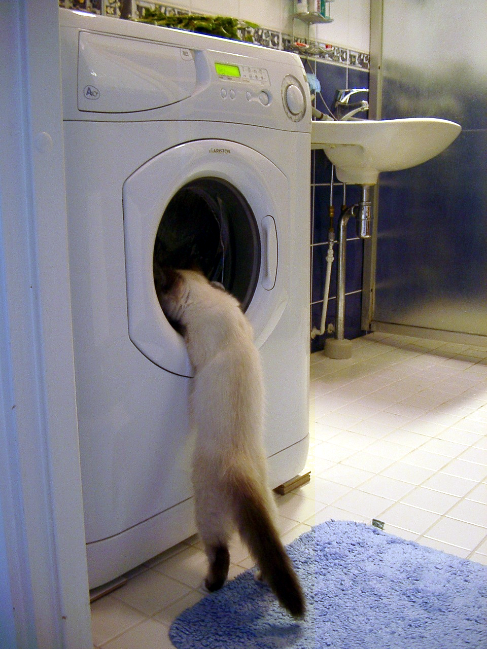 A cat investigates a front-loading washing machine.